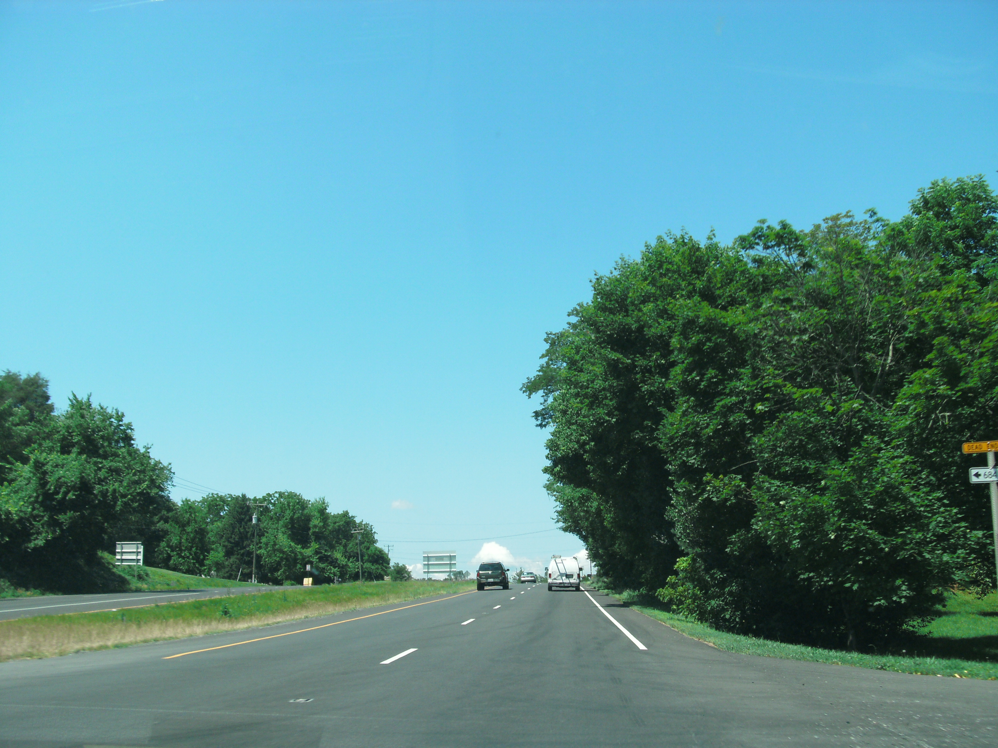 Image I took for Wikipedia